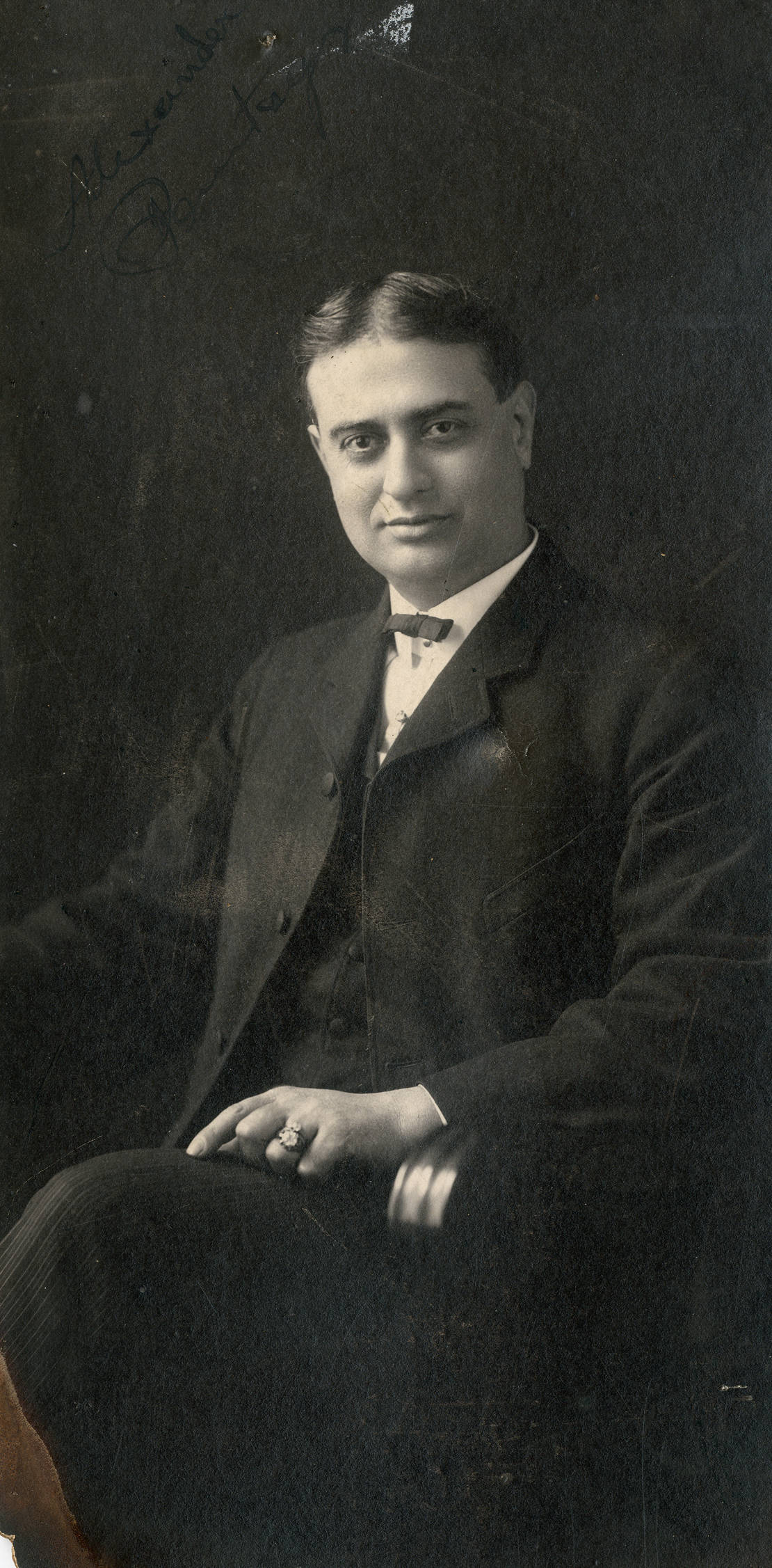 Alex Pantages, theatrical manager Subjects: miscellaneous